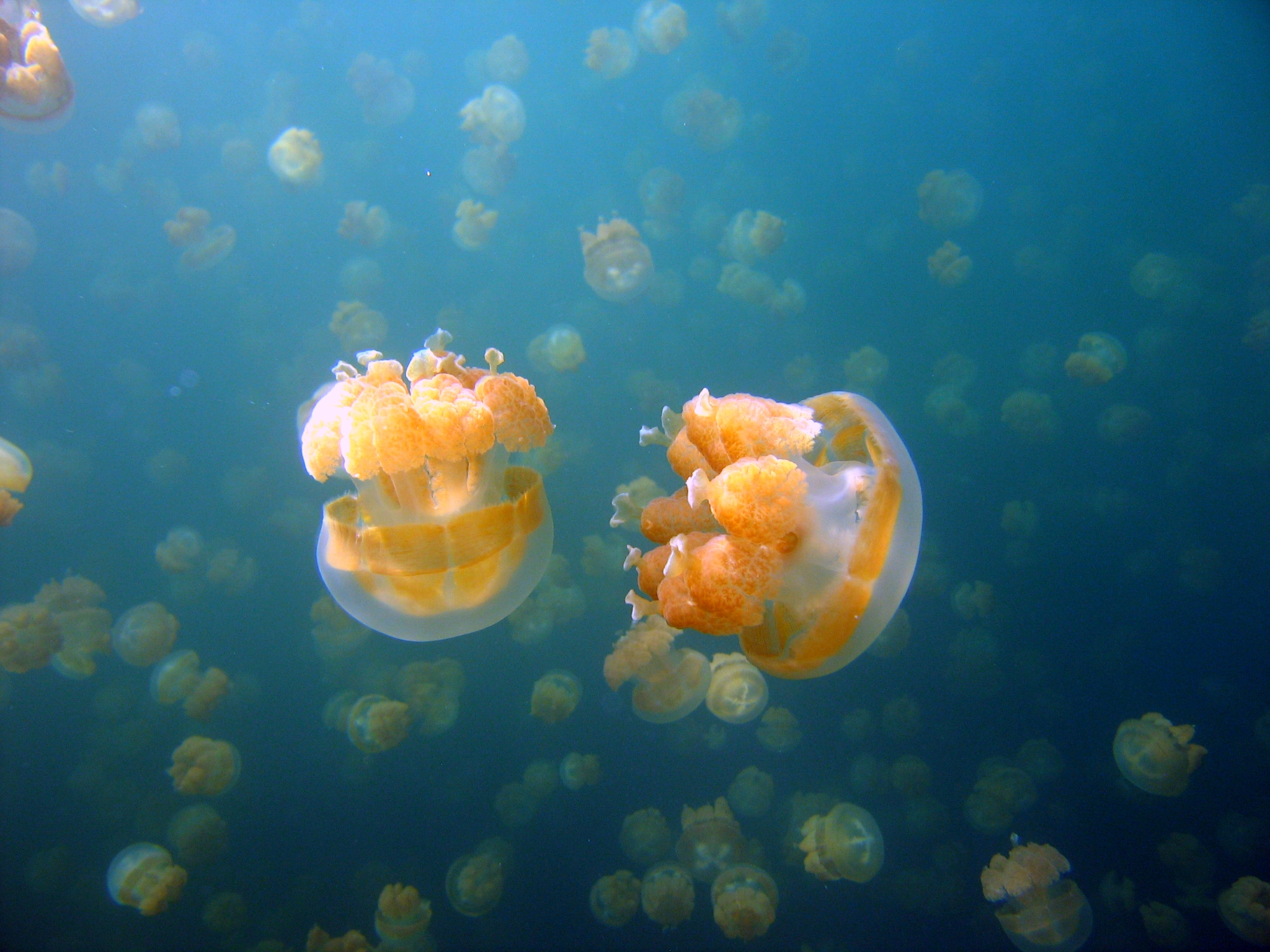 Not Cassiopea jellyfish